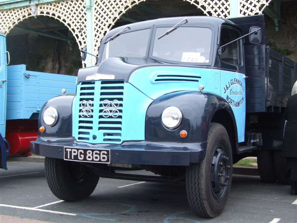 I think lorries of this type starred in the fifties classic "Hell drivers". This one is Dodge Kew P6 100 Series Tipper